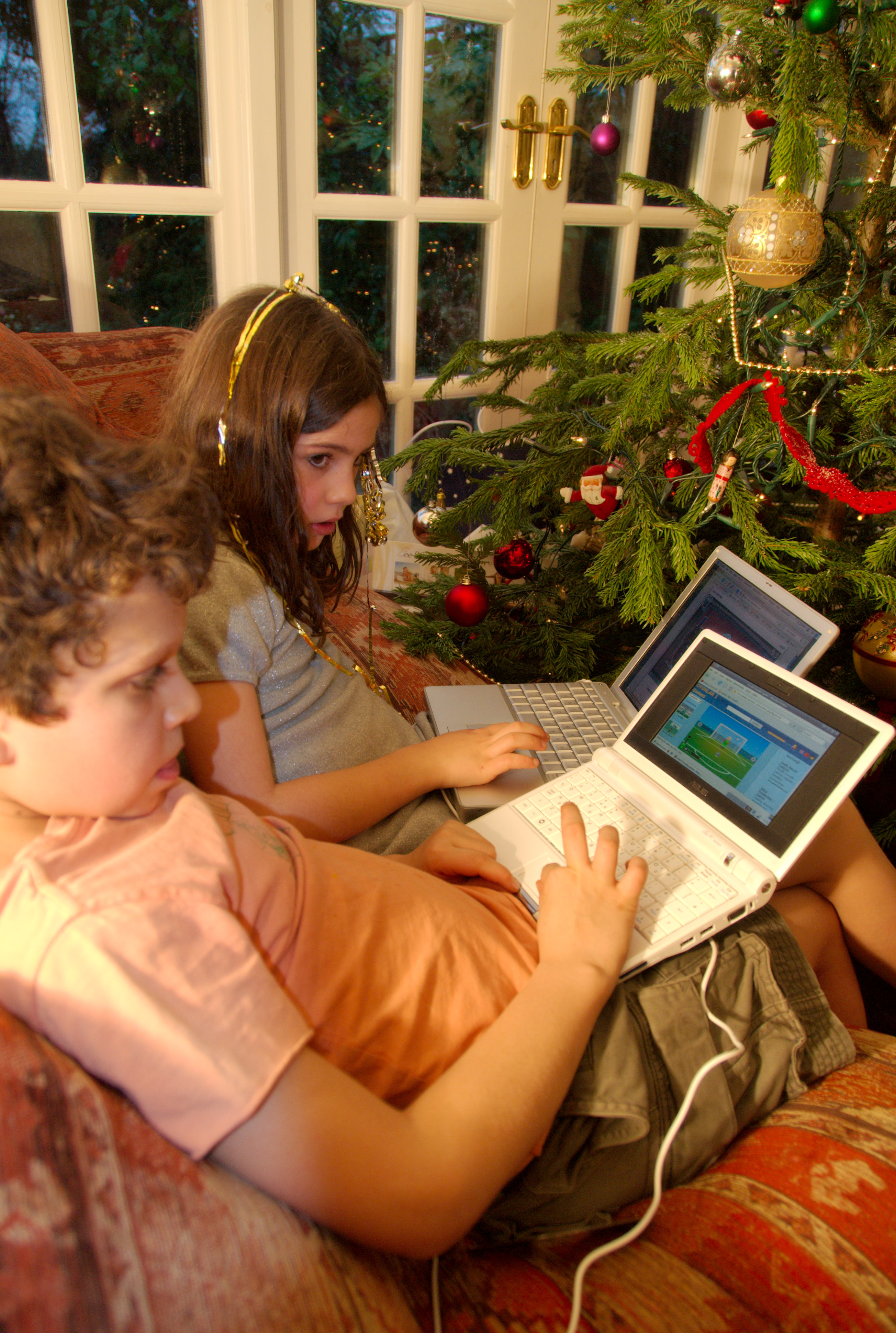 Kids with laptops. Asus EEE PC in the front.